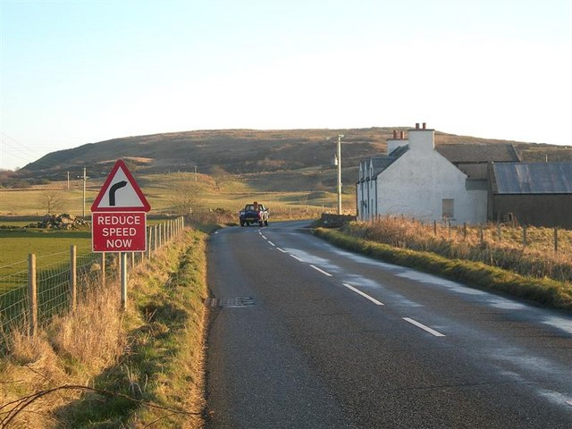 The A846 At Emeraconart This really is a very sharp bend, which can catch out unwary motorists.